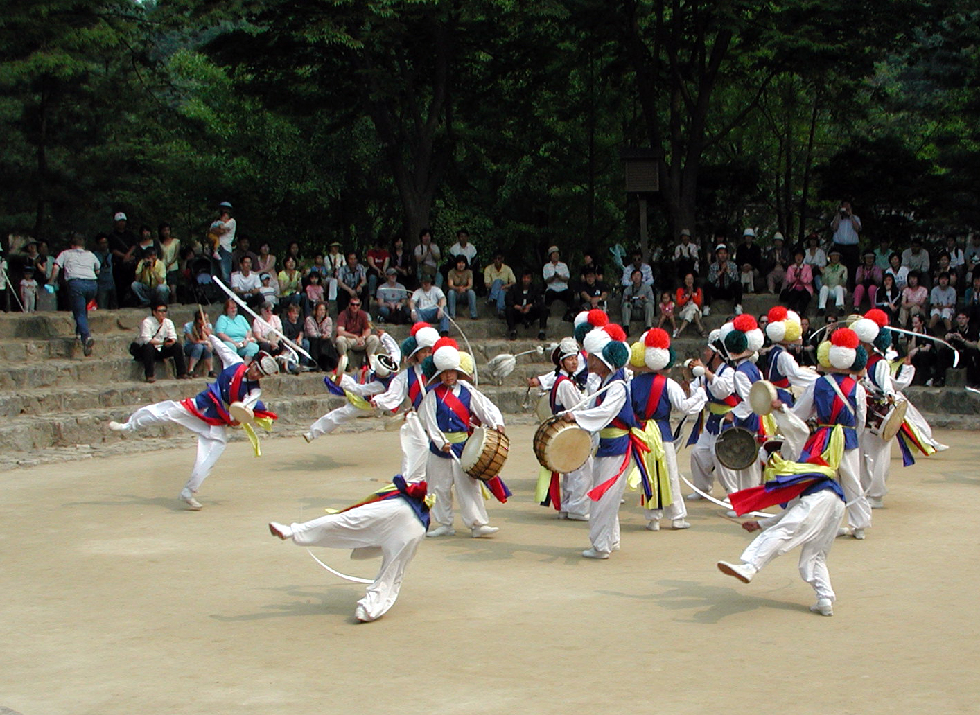 Cropped the original. Performers in traditional costume as farmer dancing on the ground. Korean Folk Village (Minsokchon) in Yongin, Gyeonggi-do, Korea